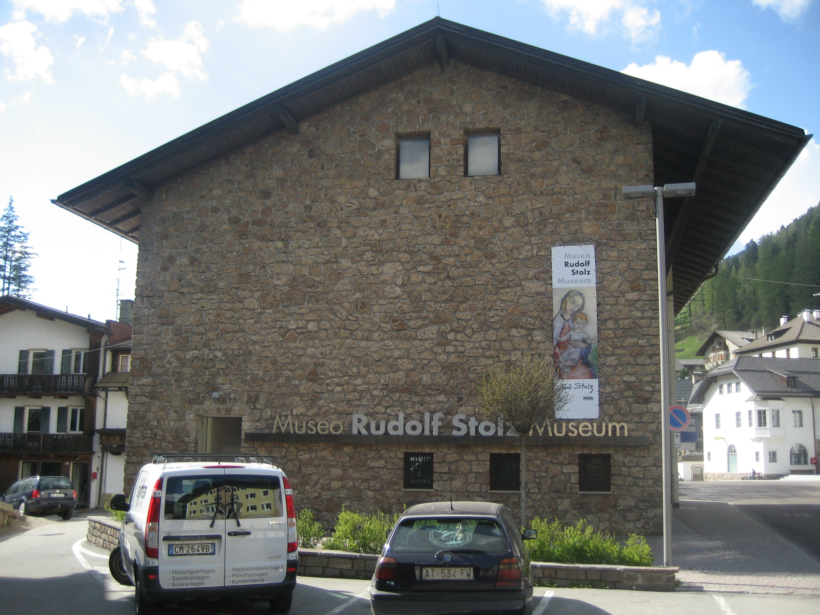 Museum Rudolf Stolz in Sexten, South Tyrol